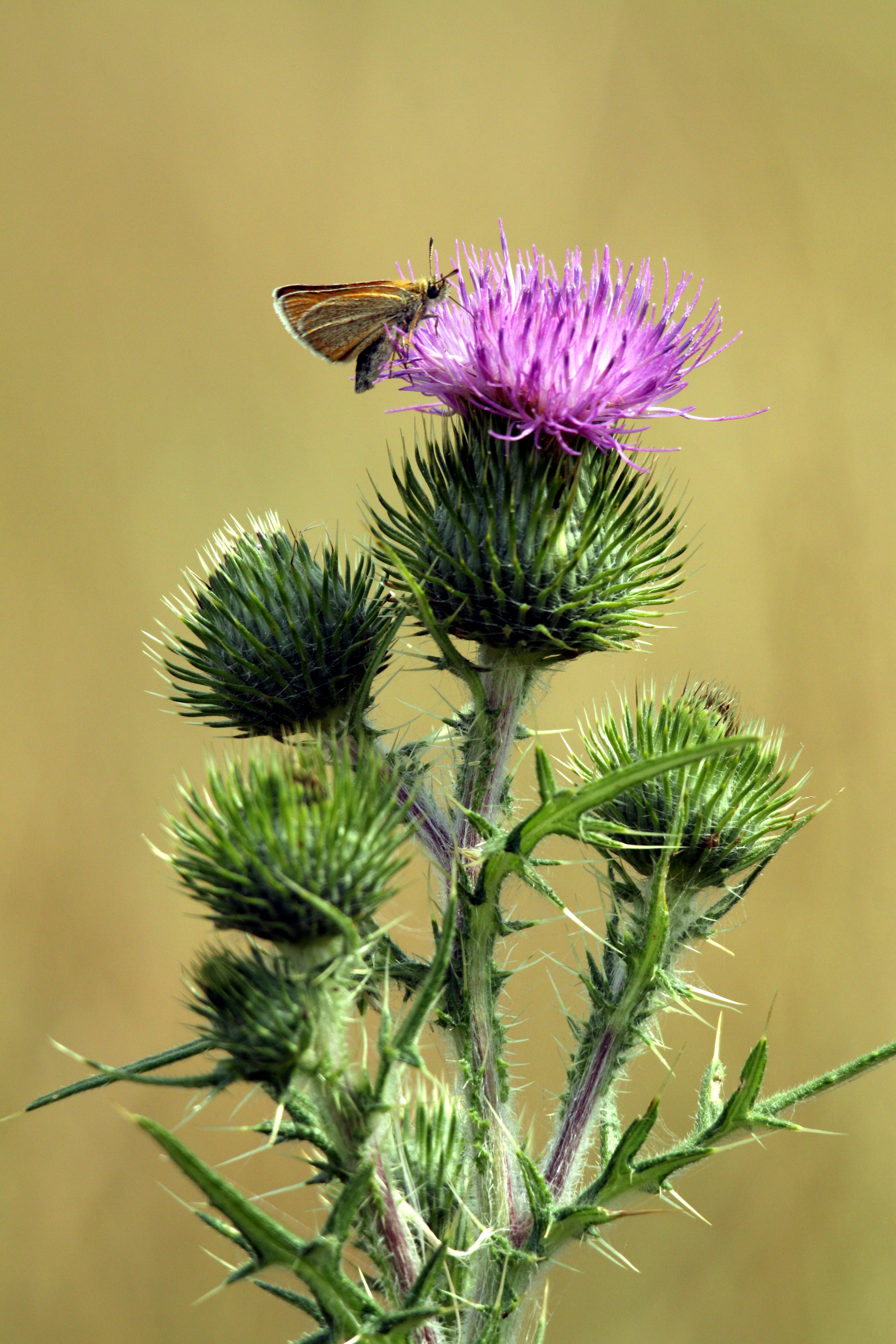 Essex Skipper (Thymelicus lineola) in Wormwood Scrubs Park in London, England, Great Britain.